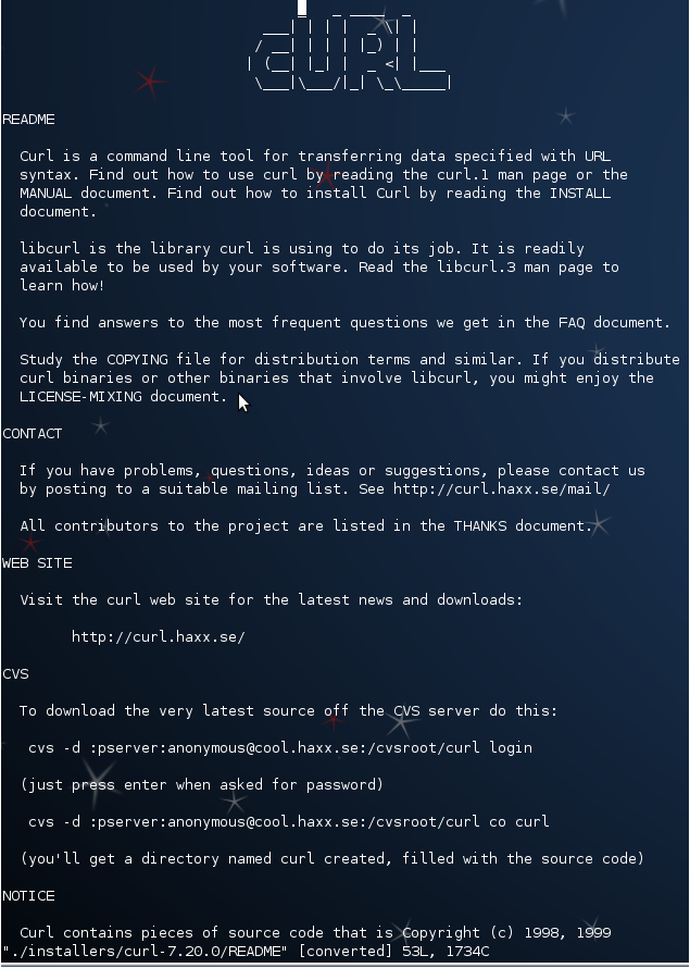 Screenshot for README file related to cURL application